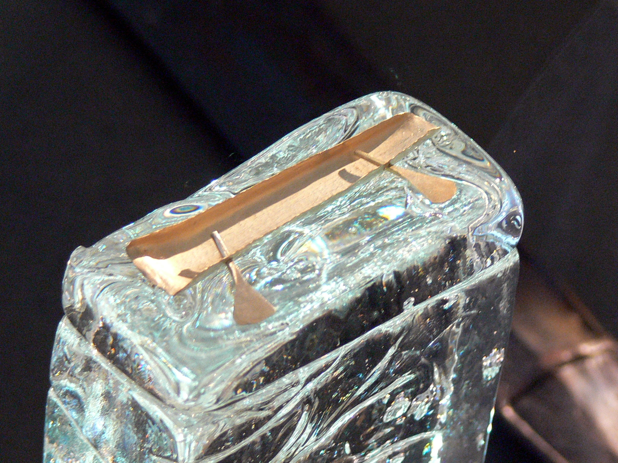 Celtic museum in Hallein ( Salzburg ). Golden model of a ship ( 4th century BC ), secondary entombment in the "Grave of a prince" 44 at Moserstein.